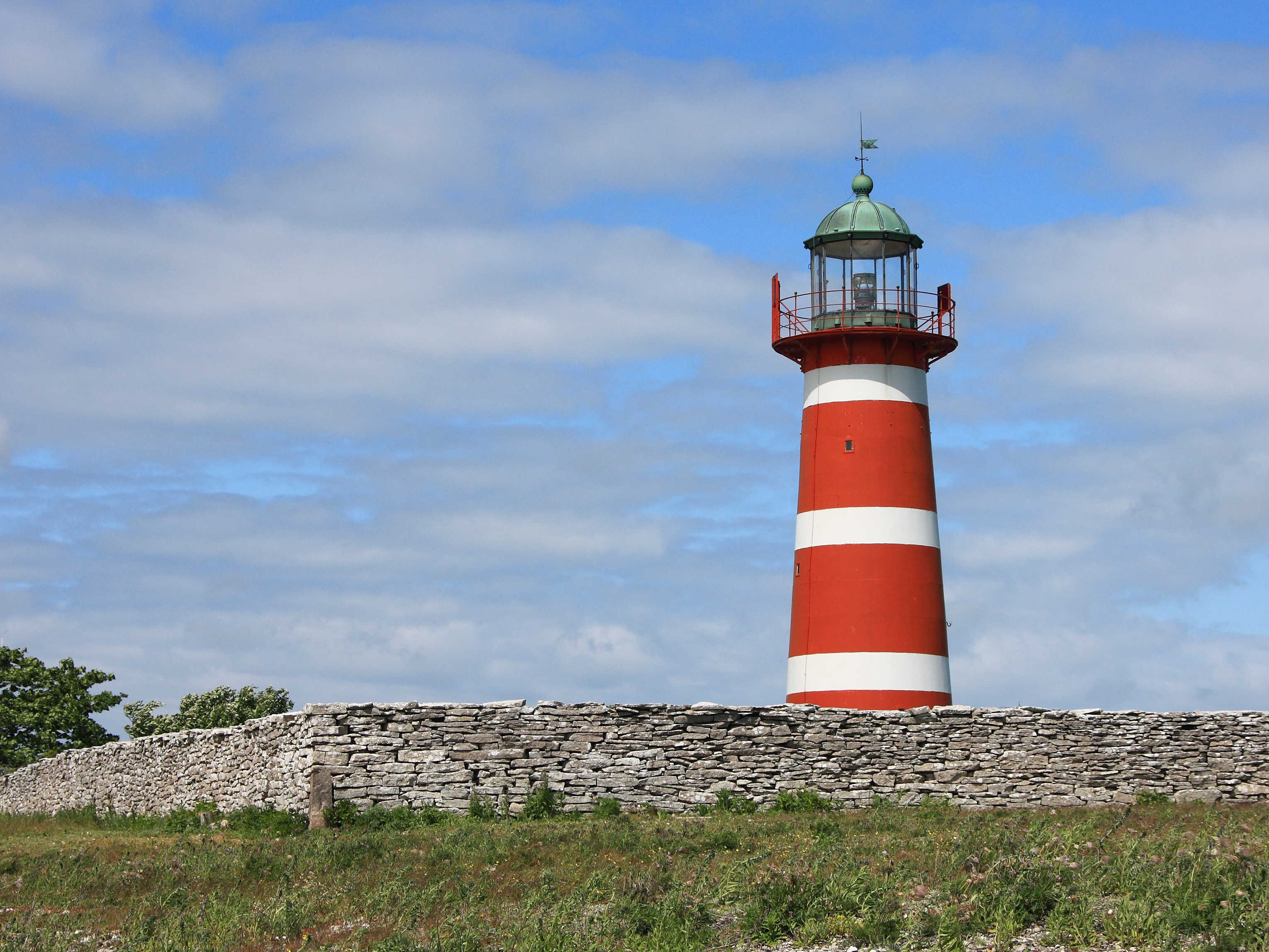 Lighthouse at Närsholmen, Gotland (build in 1872).